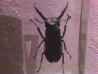 stag beetle lucanus hermani, from China, preserved in resin.